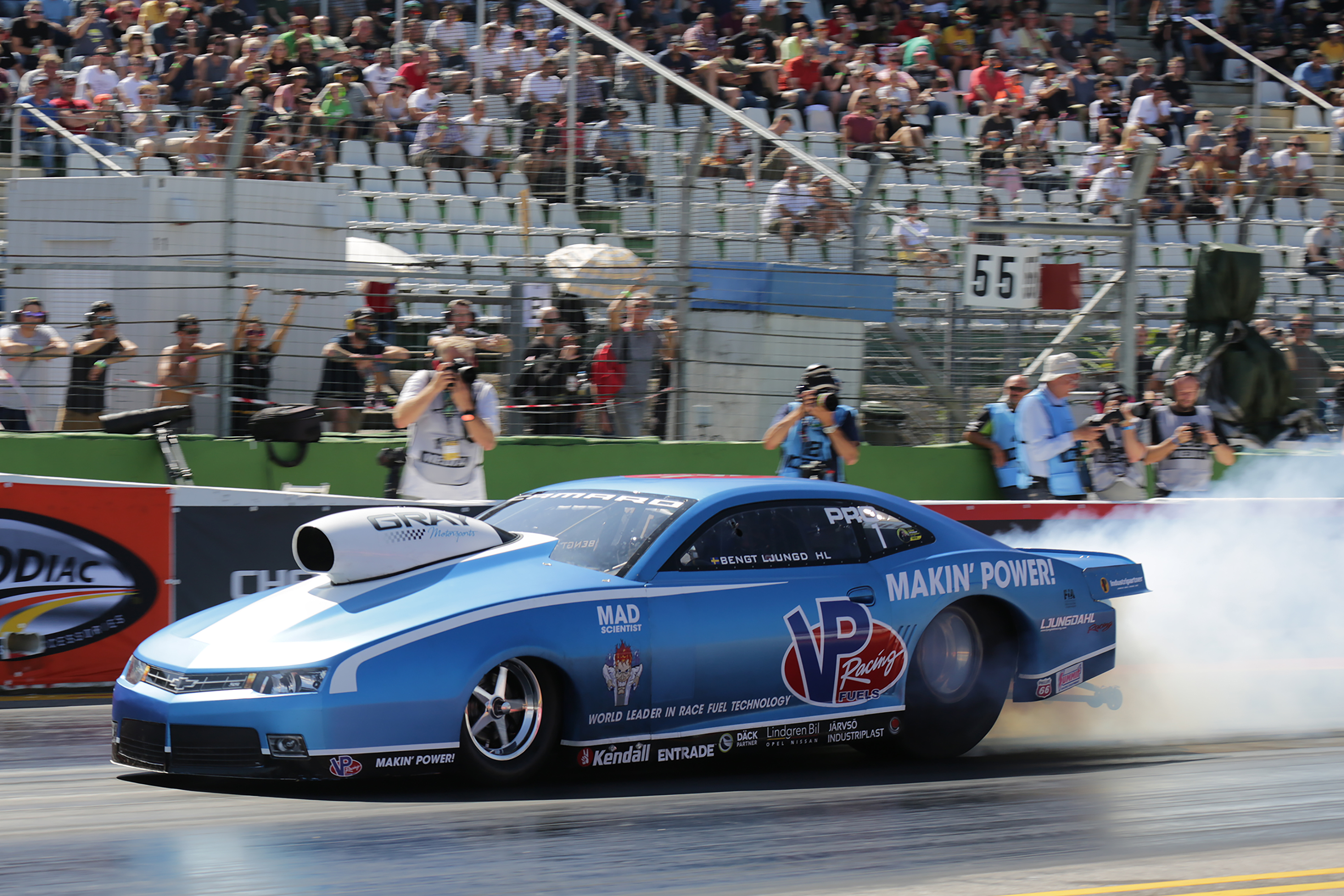 FIA Pro Stock Car. Driver: Bengt Ljungdahl (SWE). Nitrolympx 2019